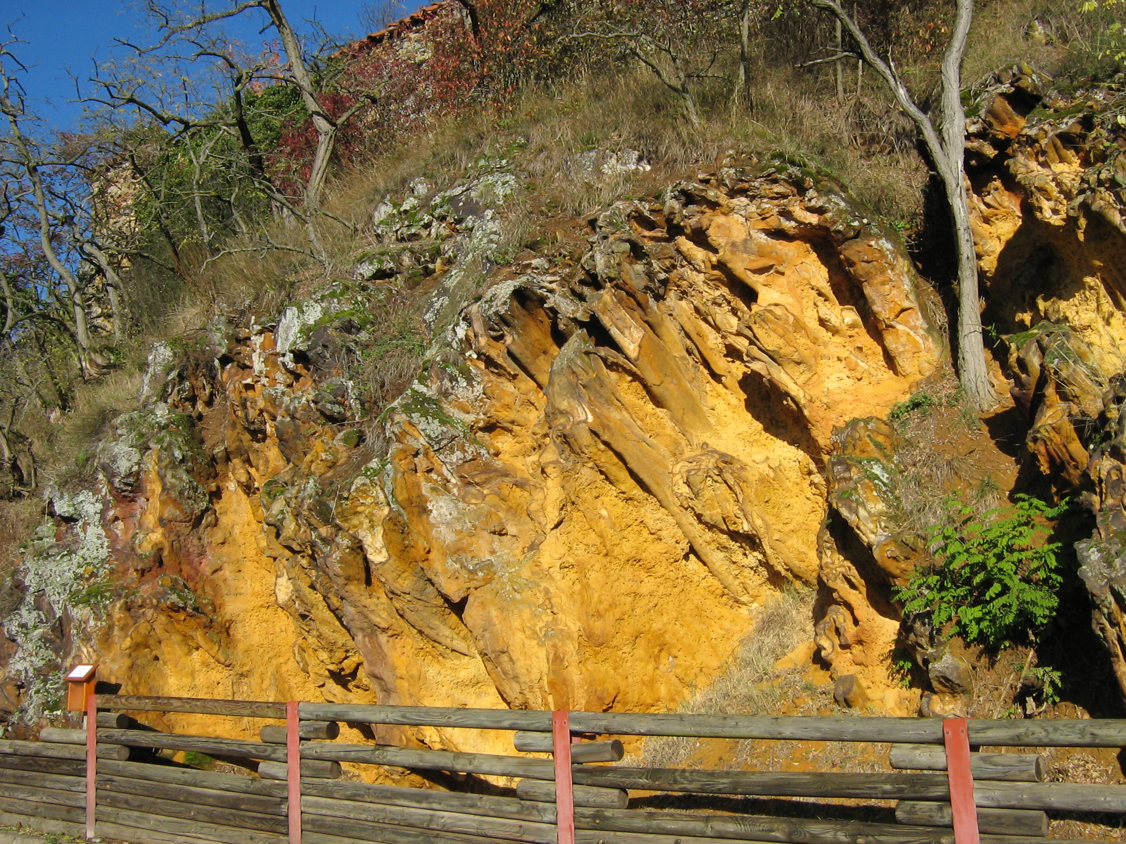 The so-called lightning tubes near Battenberg, Rhineland-Palatinate